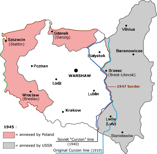 Map of the Curzon line, rectified since Teheran Conference maps (en)